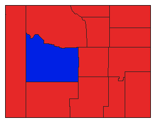 Results of the 1904 Wyoming Governor Election by county.